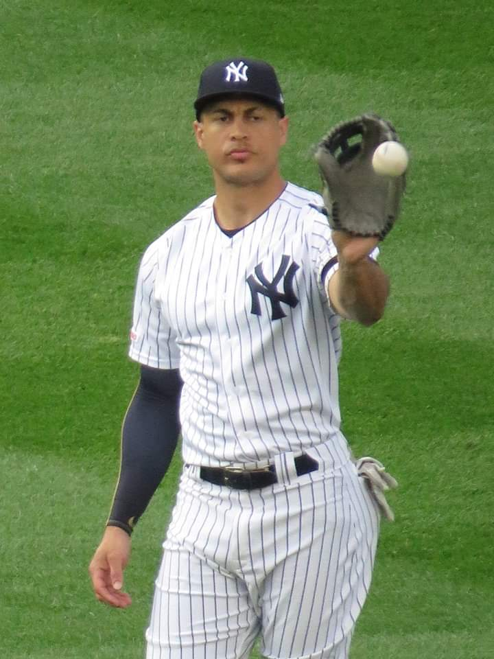 Giancarlo Stanton in 2019